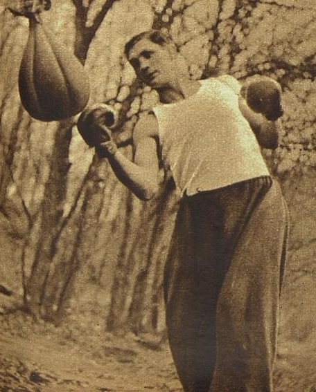 Vilda Jakš, Czech boxer, 1935